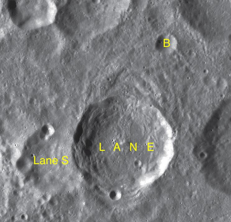 Part of the chart LAC-84 used for the presentation